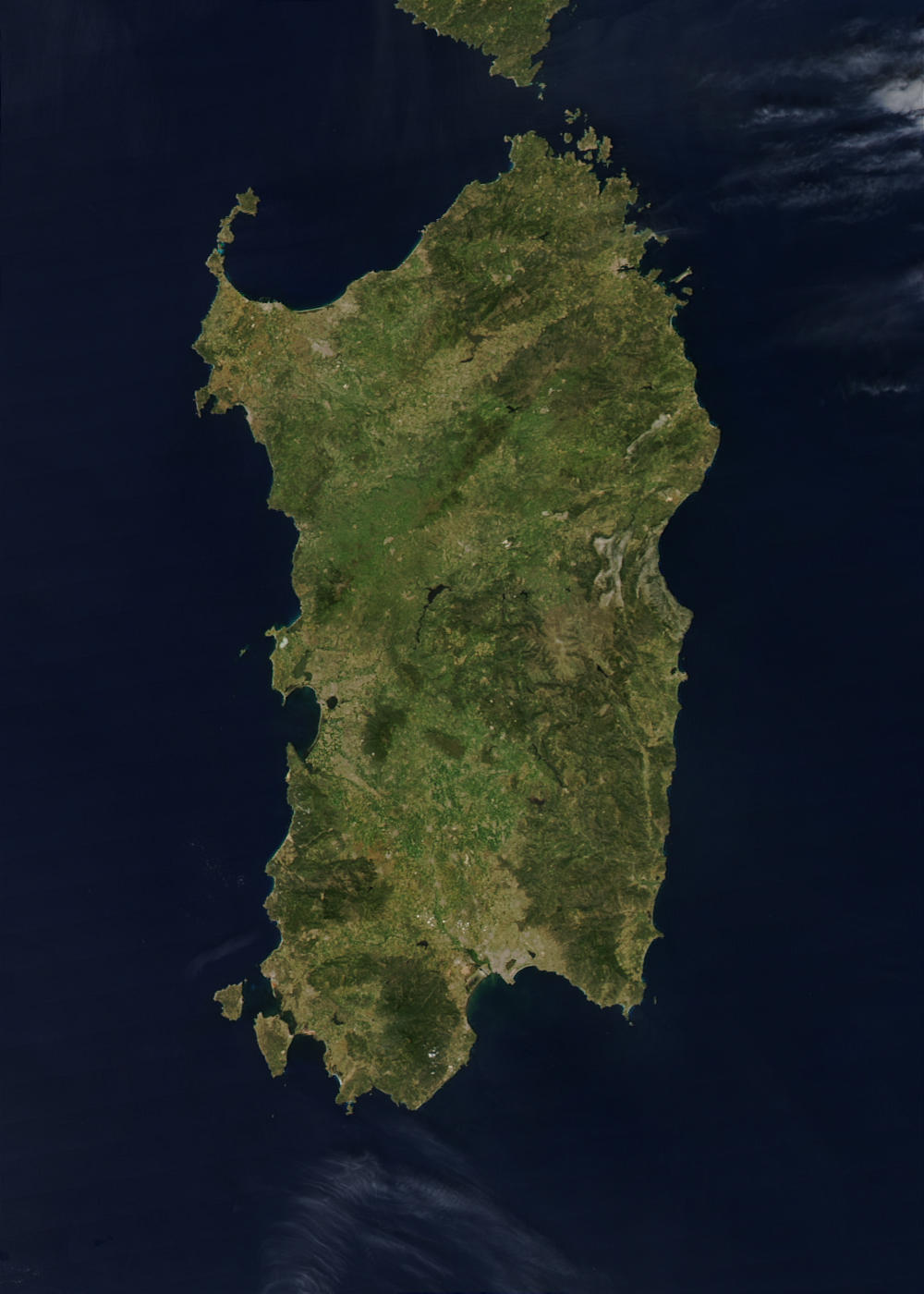 Credit Jeff Schmaltz, MODIS Rapid Response Team, NASA/GSFC The island of Sardinia sits between the Mediterranean Sea to the south and west and the Tyrrhenian Sea to the east. To its immediate north is the island of Corsica, which is a part of France. To the east of Sardinia is the middle of the Italian peninsula (not shown). Sardinia glows here with the green blush of spring. Sardinia has had a tumultuous history. Starting in ancient times, the island was occupied by Phoenicians, Carthaginians, and Romans; thereafter it was controlled by Vandals, Byzantines, and a long string of rulers of Italian city-states. In the late 15th century, Sardinia came under the control of Spain, then in the early 18th century was passed to the Austrians. It briefly fell to Spanish occupation in 1717, but by 1720 was given over again to the control of Italian rule. This true-color Aqua MODIS image was acquired on April 27, 2003.